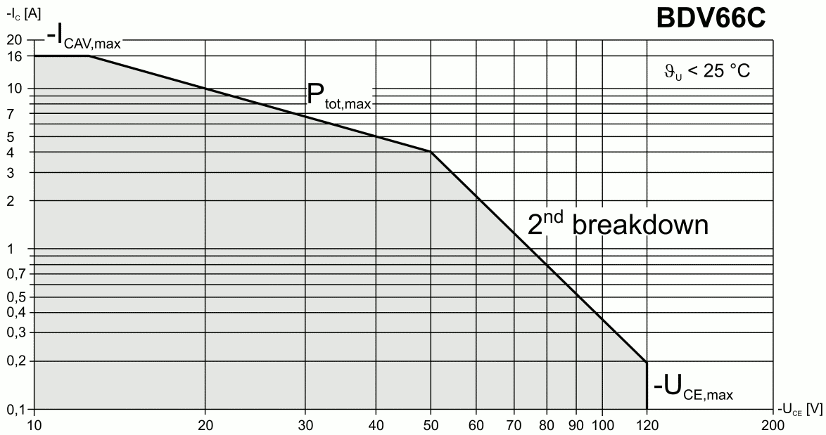 operating limits of the BDV66C, a pnp-darlington power transistor, graph derived from values the data sheet